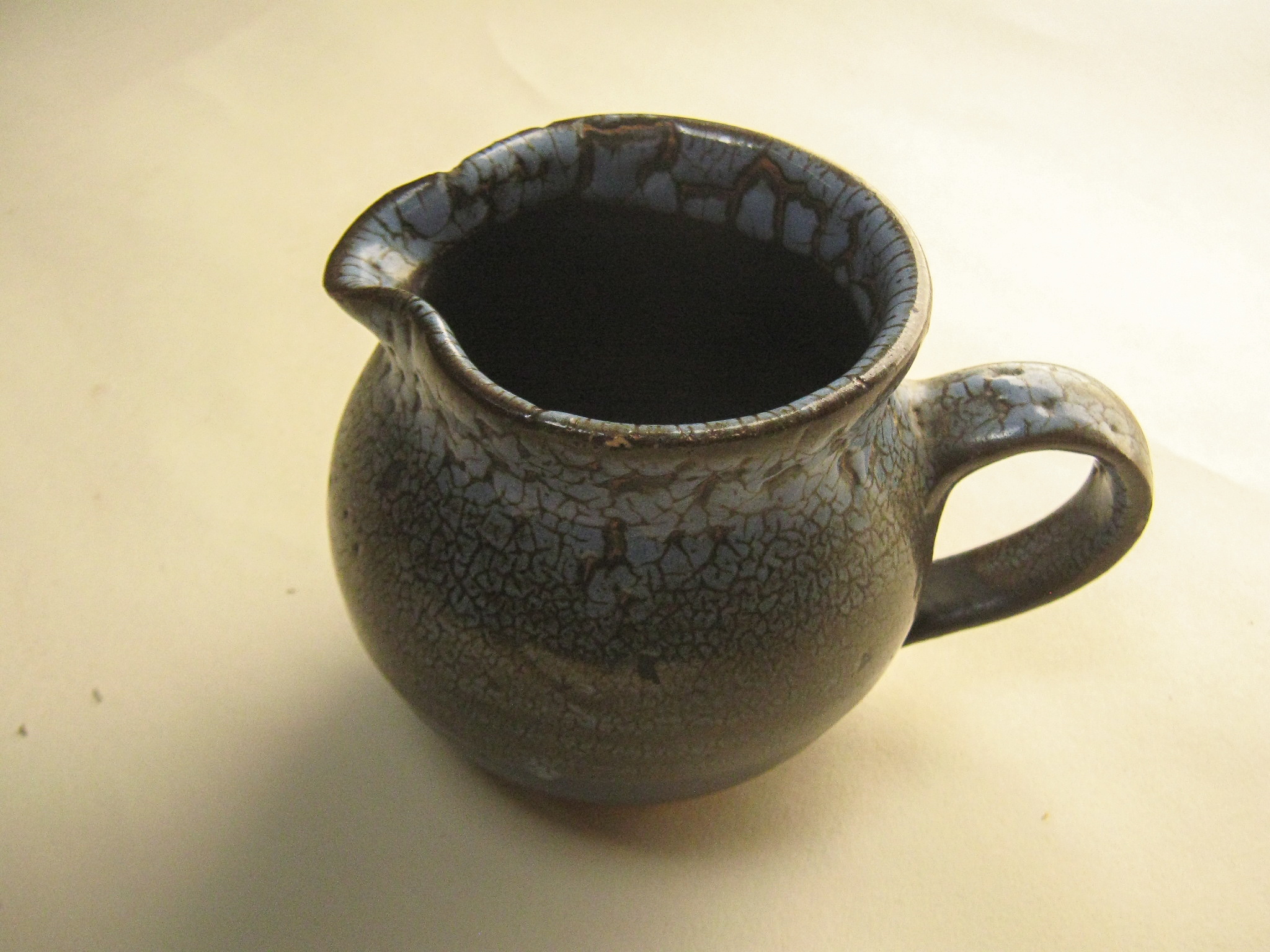 Glazed jug by Ian Sprague 1970s; photographed in a private collection at Enfield Victoria